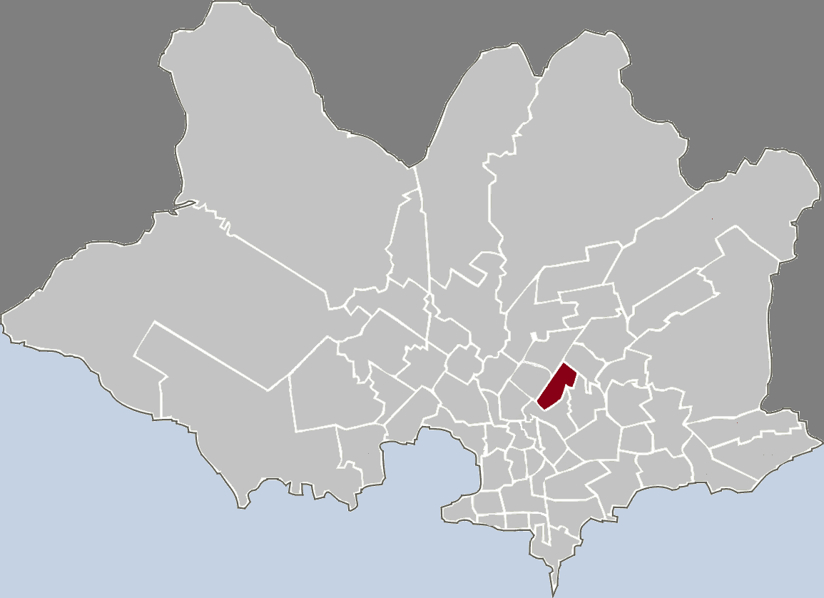 Map highlighting the given barrio in Montevideo.